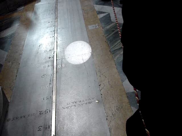 Francesco Bianchini's meridian line with solar disc in the basilica Santa Maria degli Angeli e dei Martiri, Rome. A gnomon in the basilica's south wall projects the sun's image onto the line every solar noon. Here the image is 2 minutes before local noon at an angle of nearly 56 degrees from the zenith.